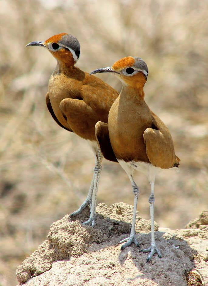 Cursorius rufus - Namibia